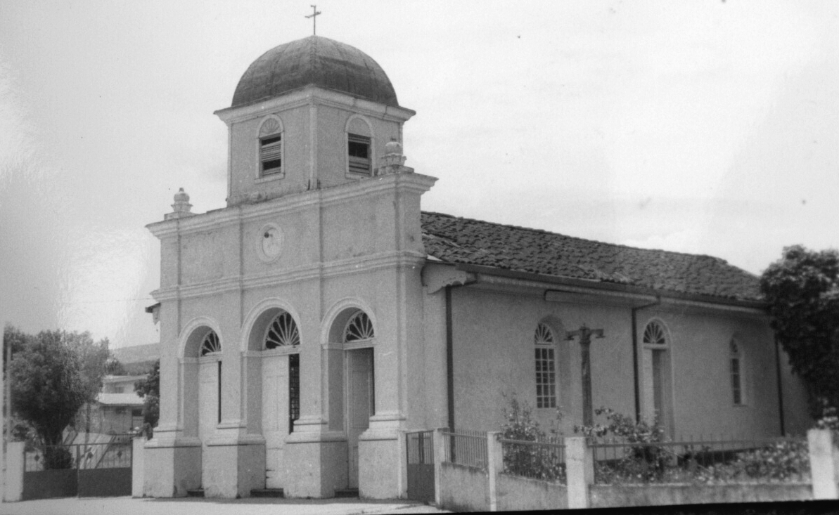 El Llano Old Hermitage, José Manuel Morera Cabezas